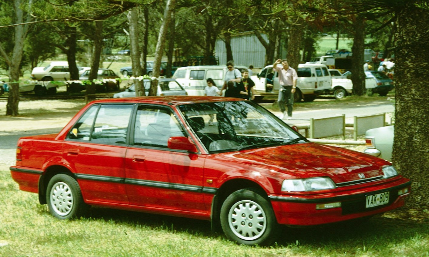 Honda Civic Third iteration Sedan